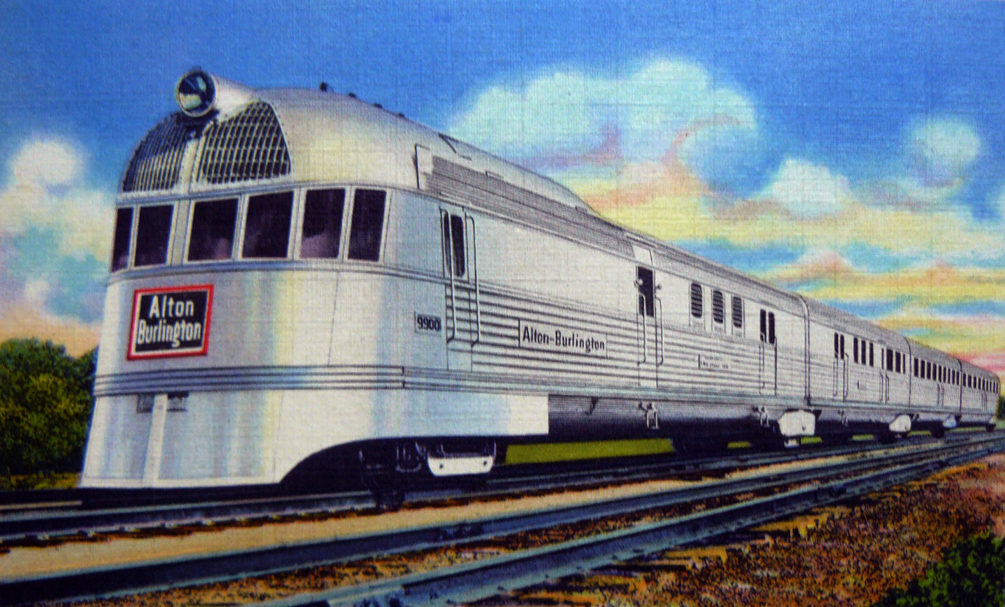 Postcard depiction of the Ozark State Zephyr. This train traveled the same route as the General Pershing Zephyr. Both trains traveled part of their route over tracks owned by the Alton Railroad; these trains were sometimes identified as "Burlington Alton" because of that. "Unused linen post card (a Beauty) of the Alton - Burlington first streamlined diesel powered train "The Ozark State Zephyr". Daily runs between St. Louis and Kansas City. Published by Curt Teich. Excellant condition."